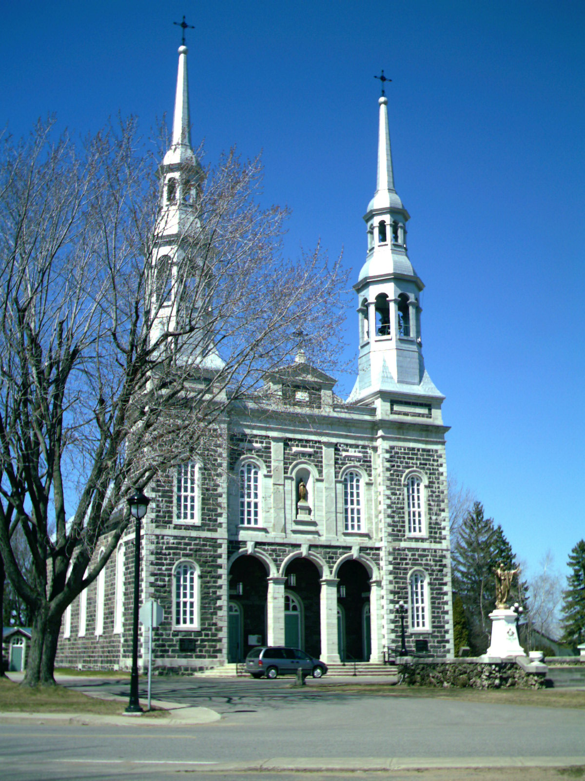 The Notre-Dame-de-la-Visitation Church in Champlain, Quebec. Taken by uploader while on vacation.